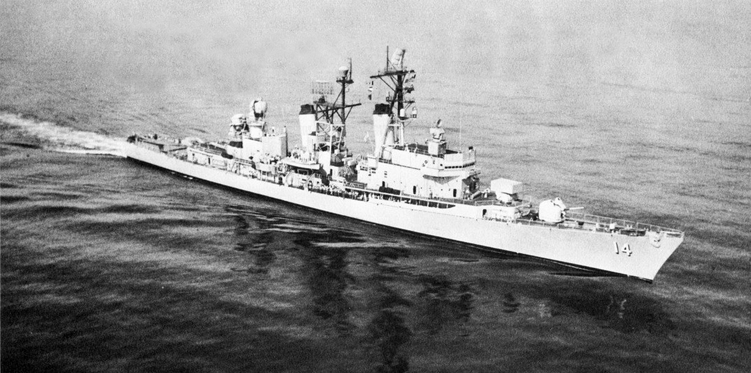 The U.S. Navy guided missile destroyer USS Dewey (DLG-14) at sea, circa in 1960.